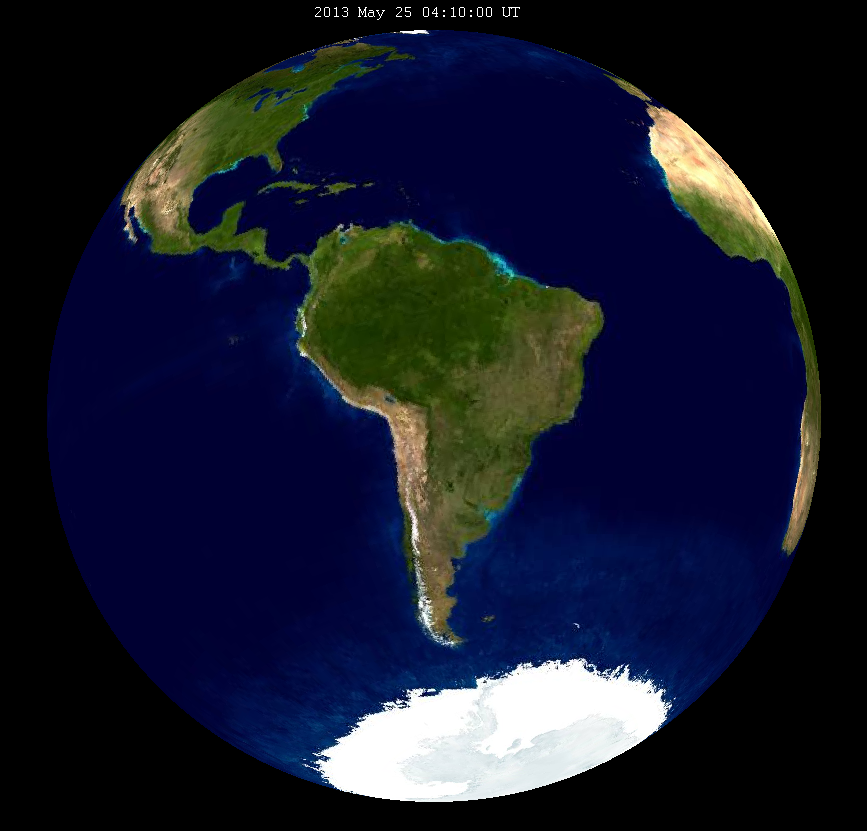 May 2013_lunar_eclipse view of earth The orientation of the earth as viewed from the center of the moon during greatest eclipse. thumb